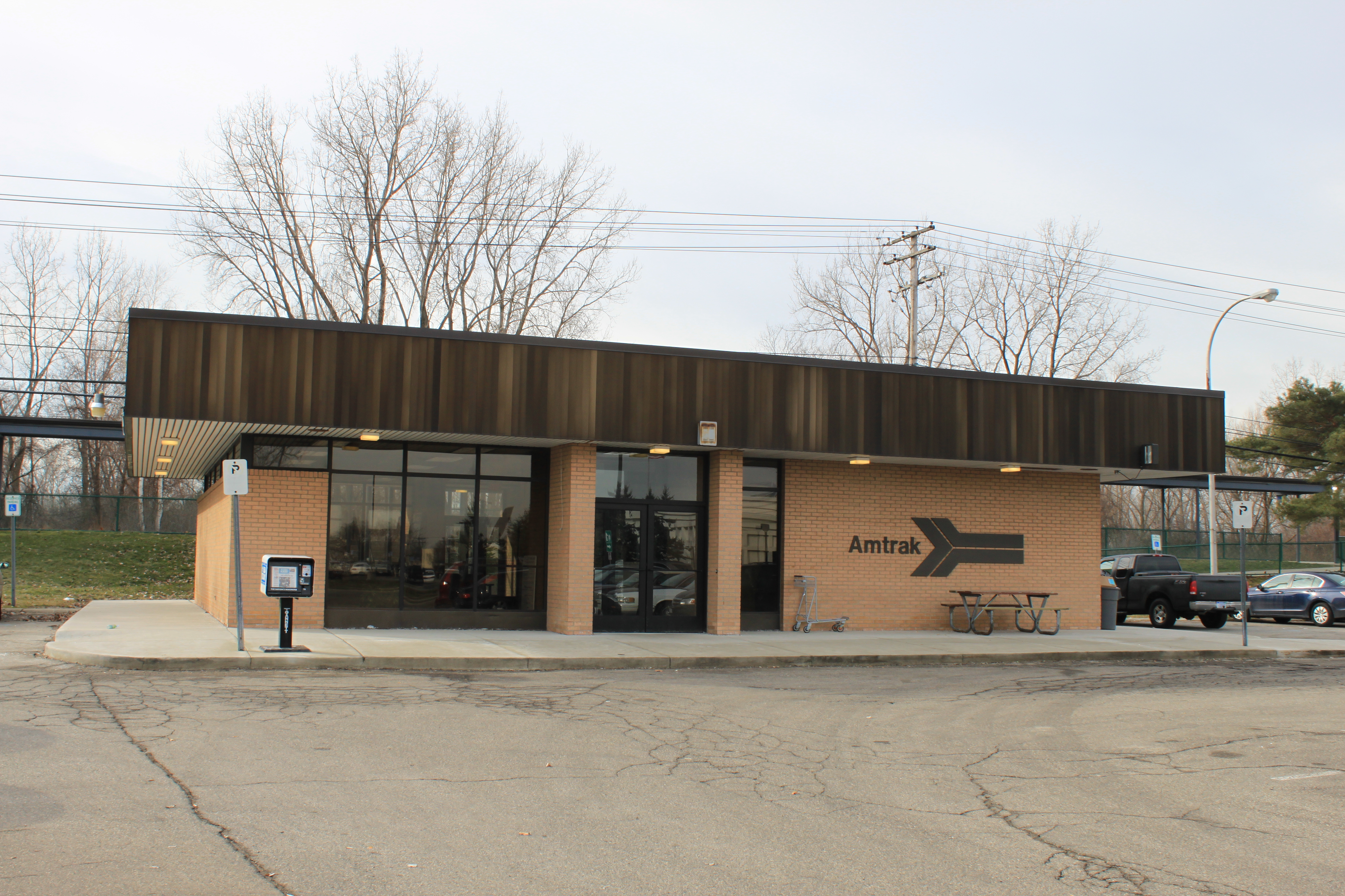 Amtrak station building, 16121 Michigan Avenue, Dearborn, Michigan